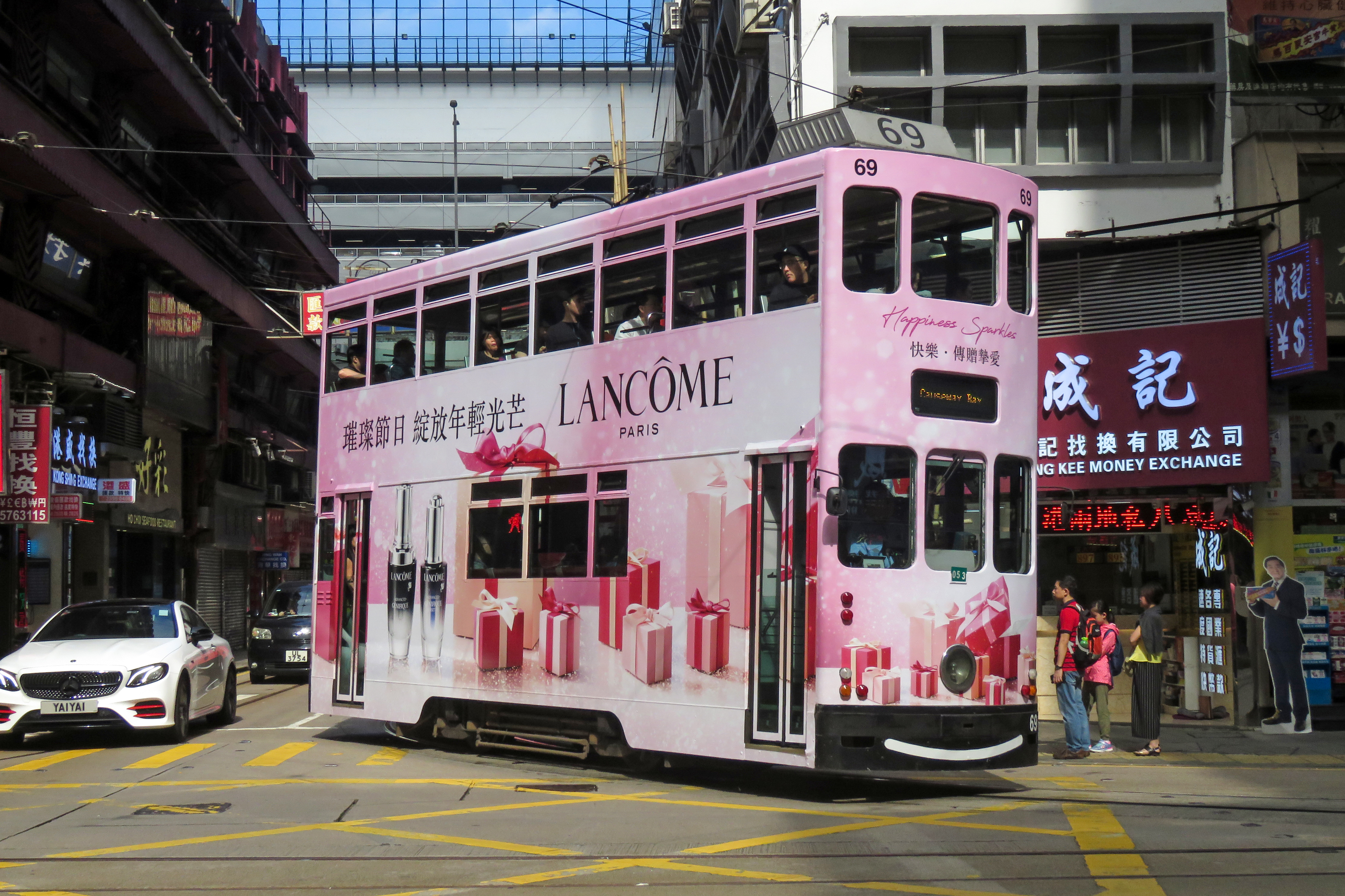 Lancôme's pink advertisement for this Christmas?